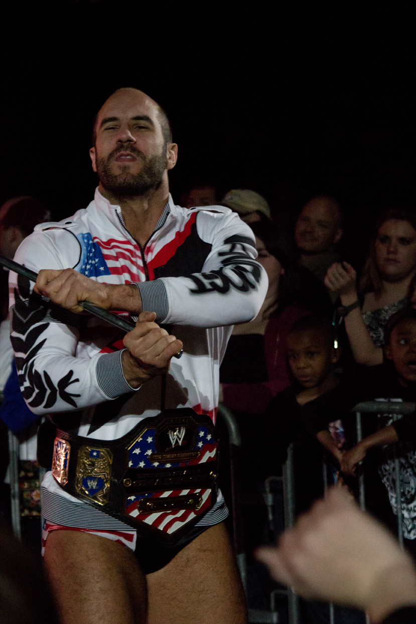 Antonio Cesaro with his WWE United States Championship during a WWE house show on February 2, 2013 in Montgomery, Alabama.